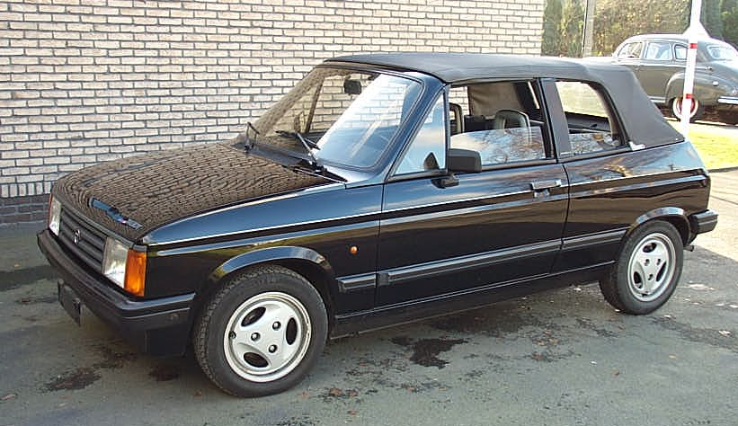 1984 Talbot Samba Cabrio, black The vehicle was among the many classic cars handled by the Garage de l'Est